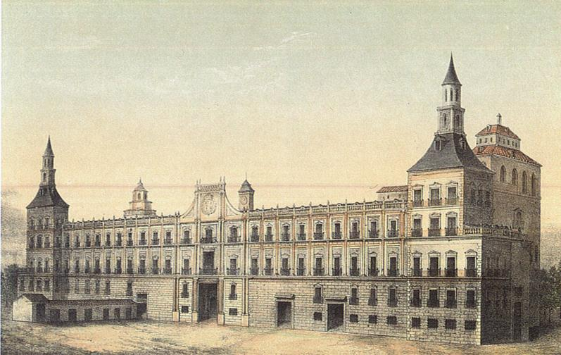 Real Alcázar de Madrid, unknown